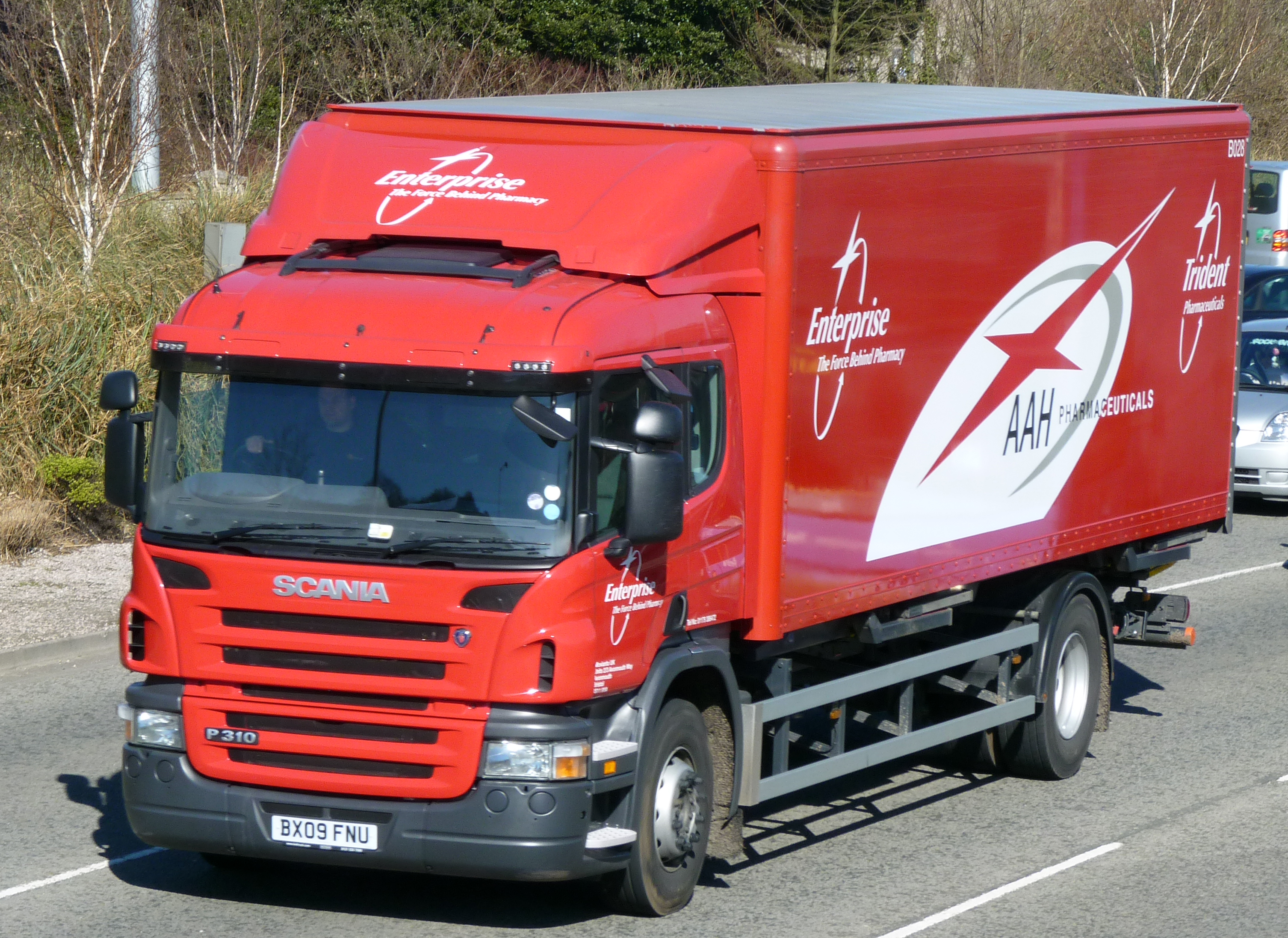 A lorry belonging to AAH Pharmaceuticals in Plymouth in 2010